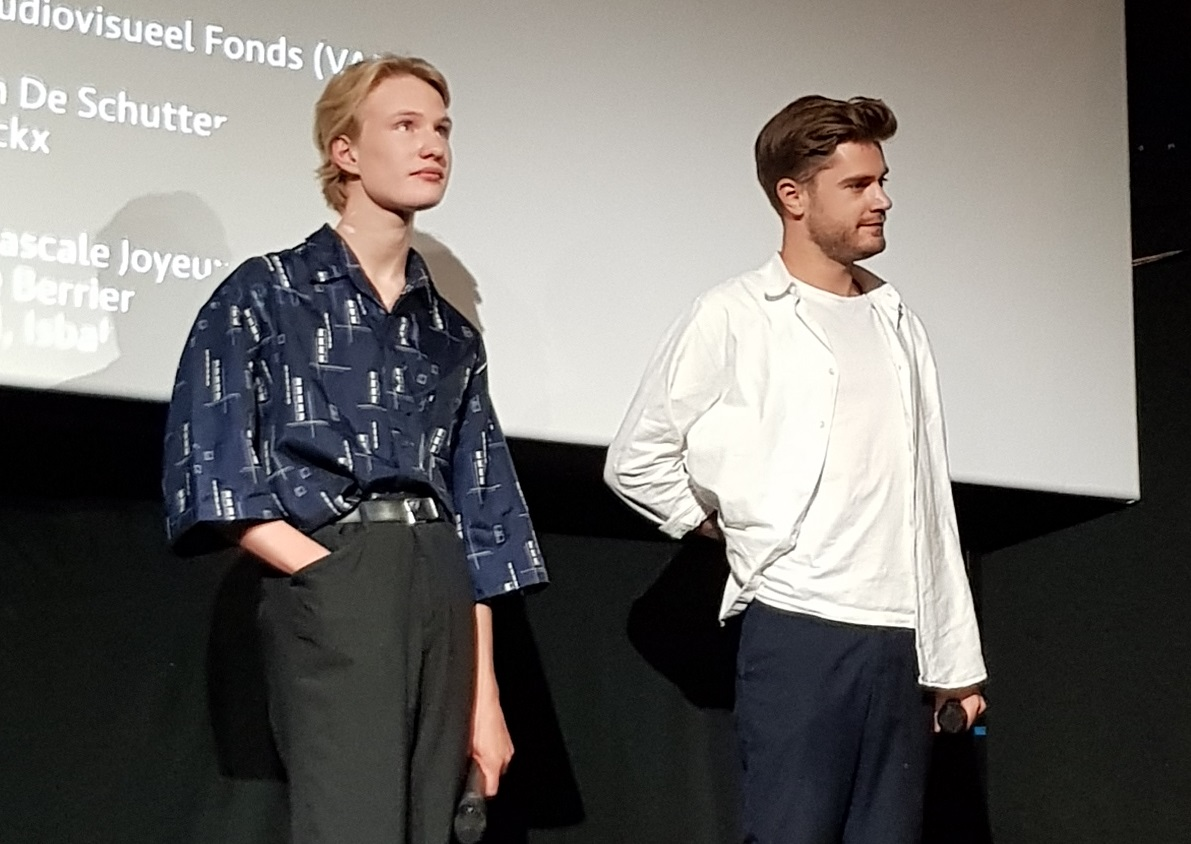 "Girl" Paris Premiere with actor Victor Polster and director Lukas Dhont